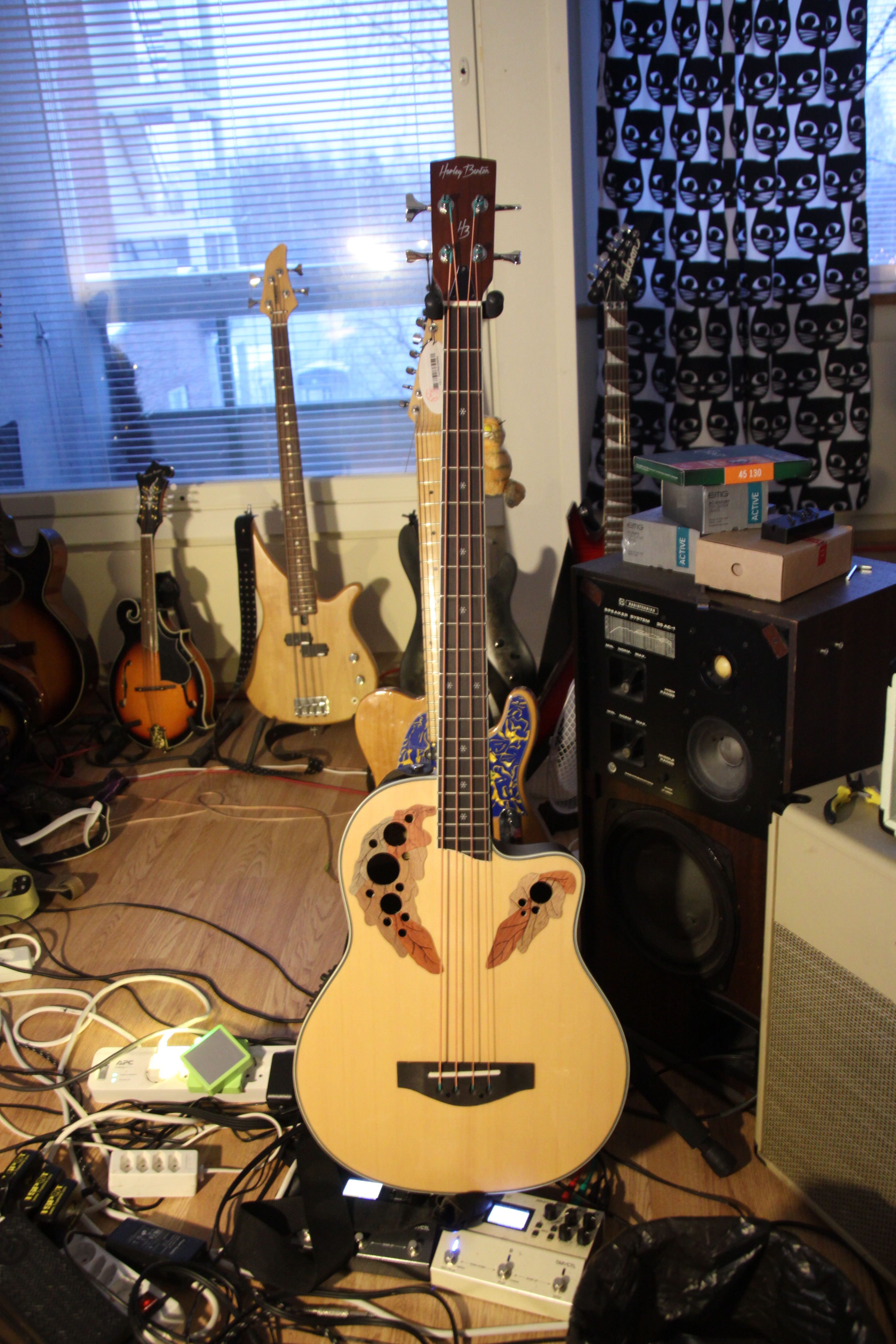 Harley Benton acoustic bass guitar.